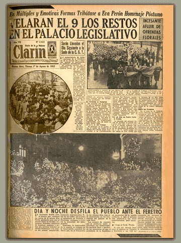 Cover for the Clarín newspaper.